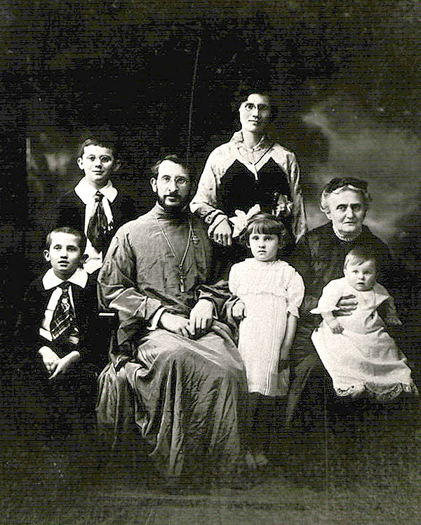 Fr. Leonid Turkevich as a young priest with his family.